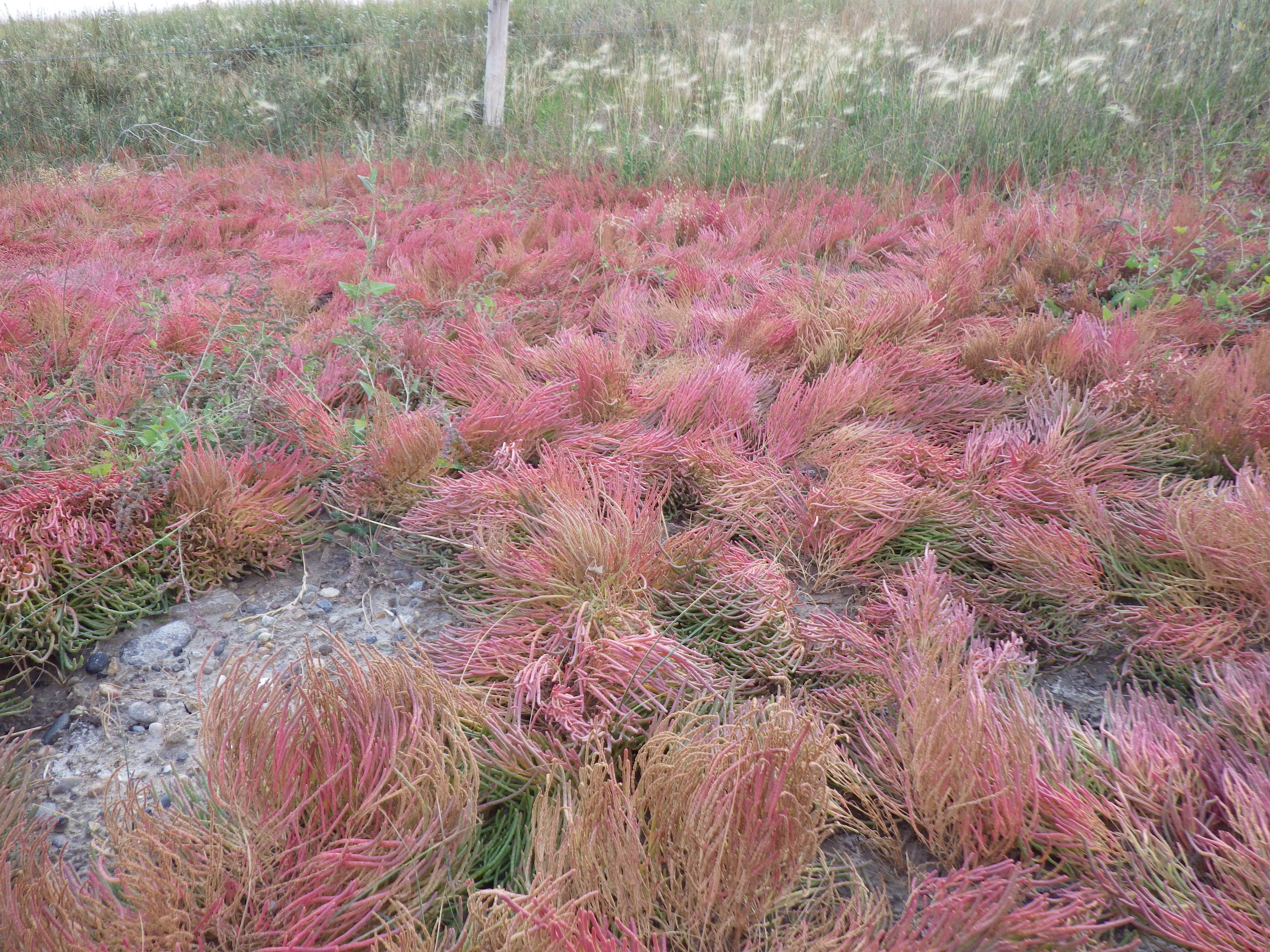 The most bright reddish infloresences (with opposite branching) of plants tracking saline seeps are distinctive of this species.